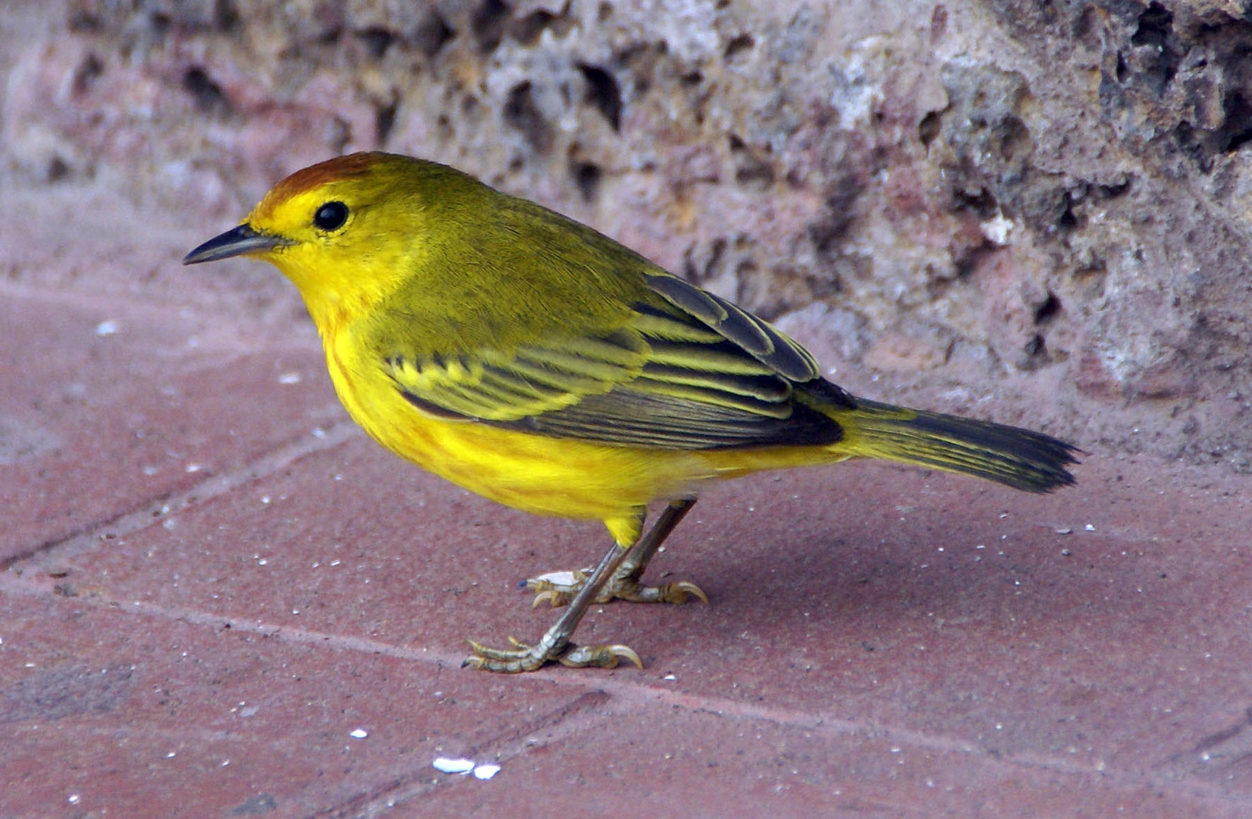 Yellow Warbler (Dendroica petechia), Puerto Ayorto, Santa Cruz, the Galapagos.